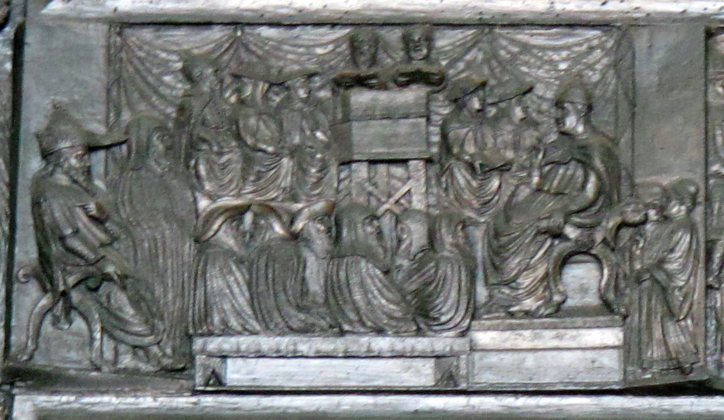 Filarete Doors